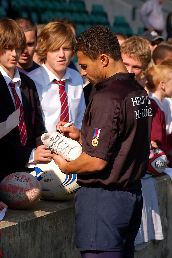 Jason Robinson signing autographs.